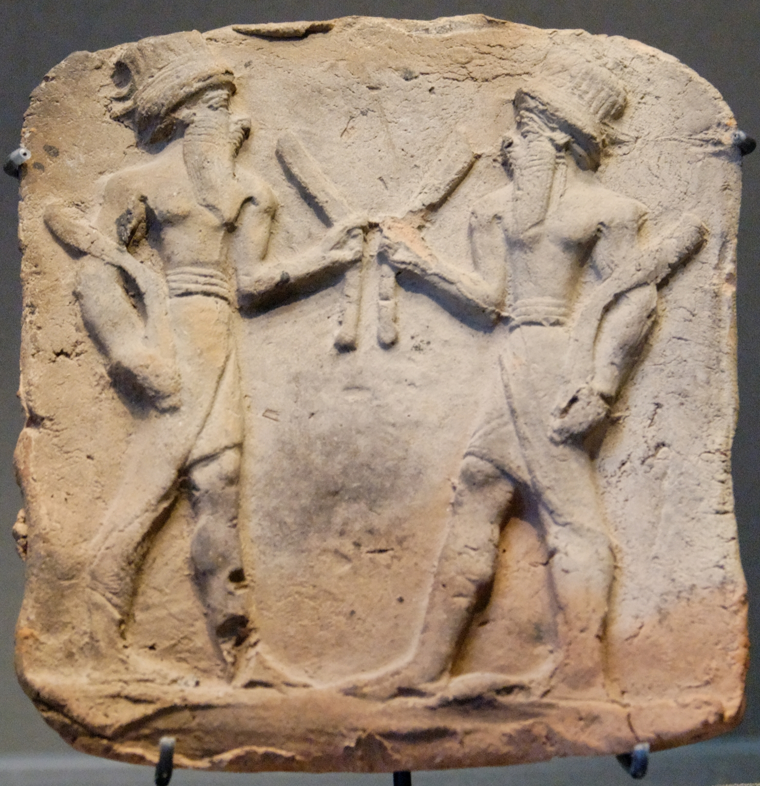 Dancers with percussion instruments. Terracotta relief, early 2nd millennium BC. From Eshnunna.